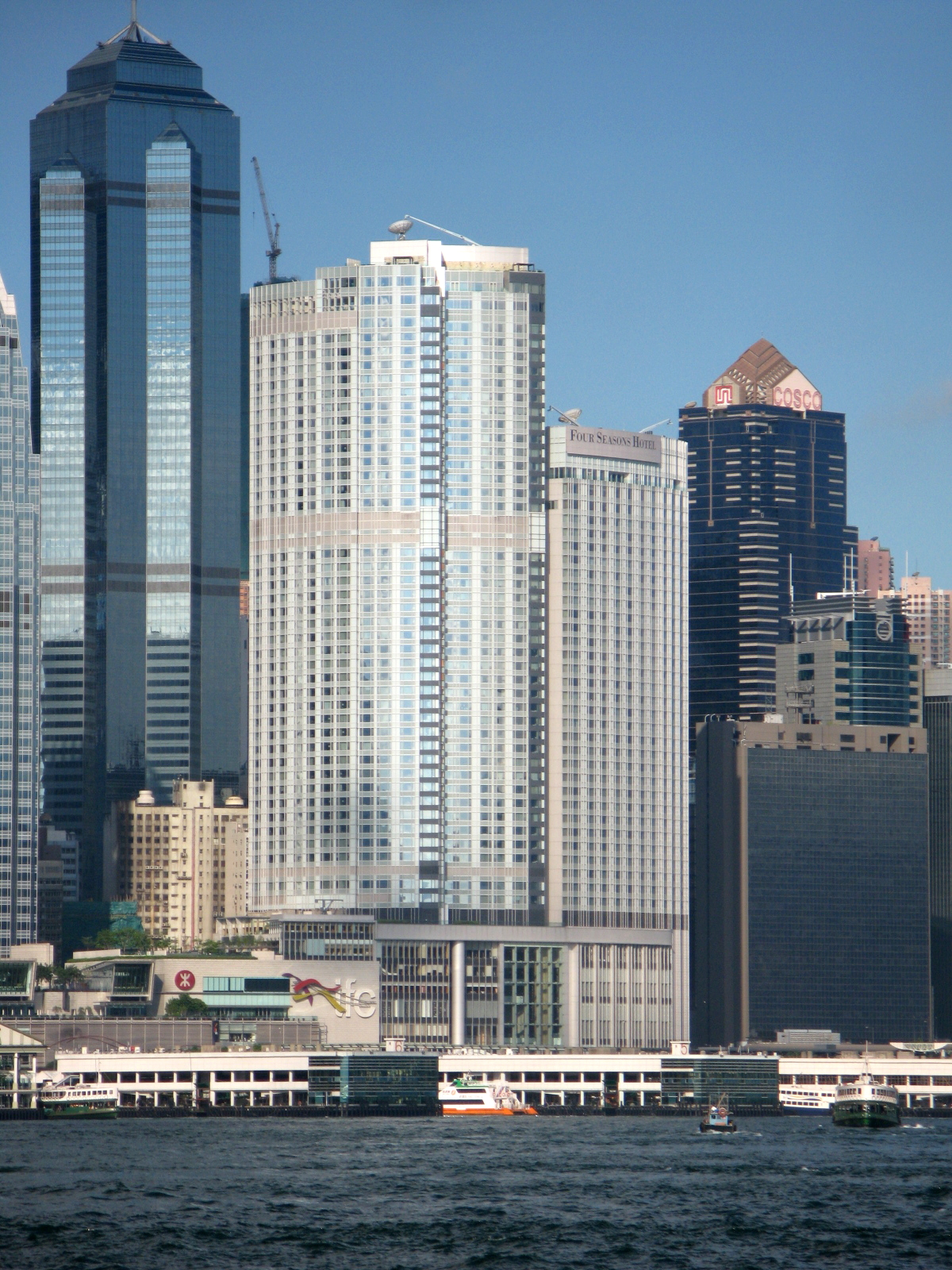 四季匯(左)及香港四季酒店(右) Four Seasons Place (left) & Four Seasons Hotel (right)